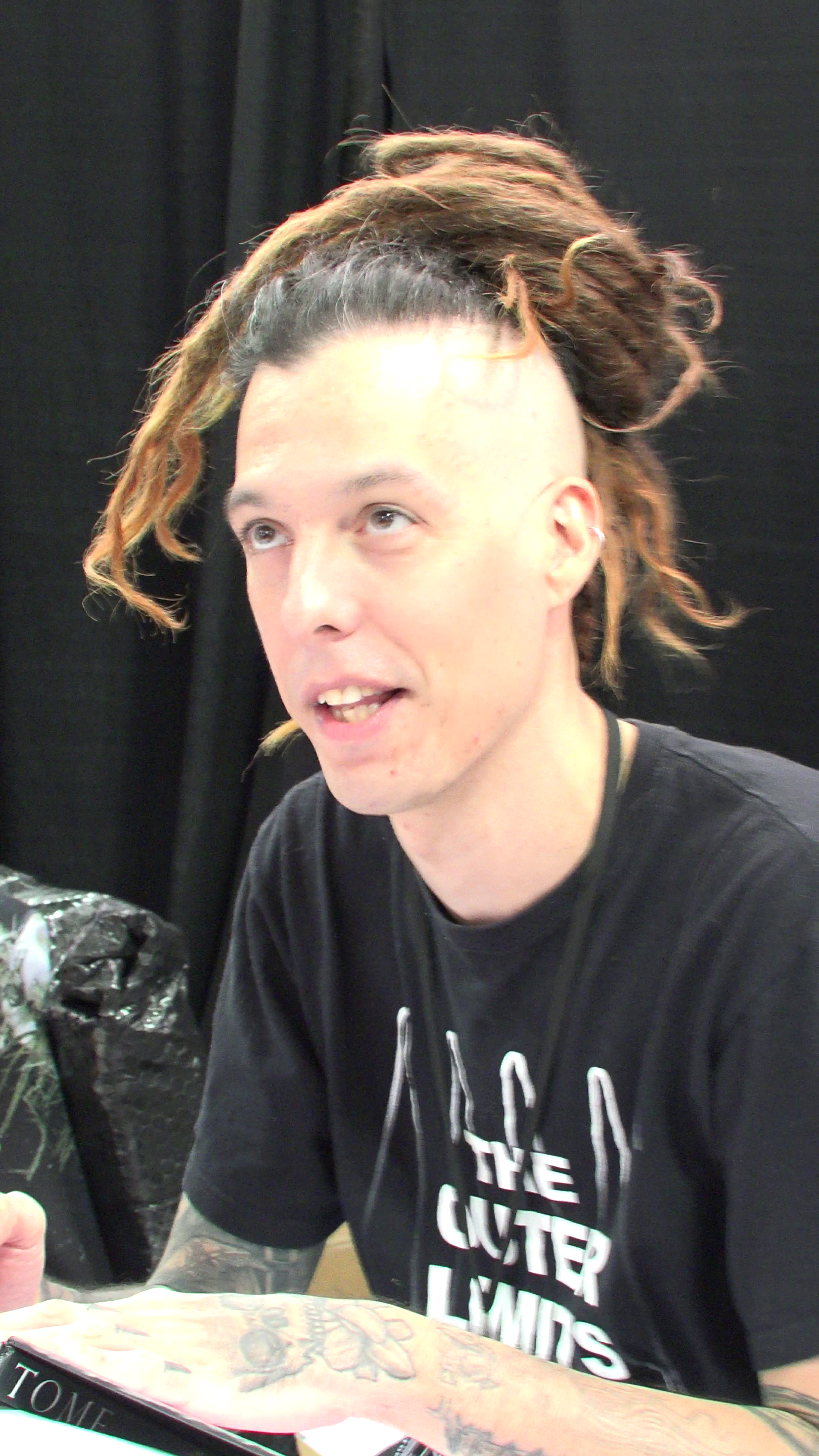 David Stoupaks in the Artists' Corner at New York Comic Con 2015